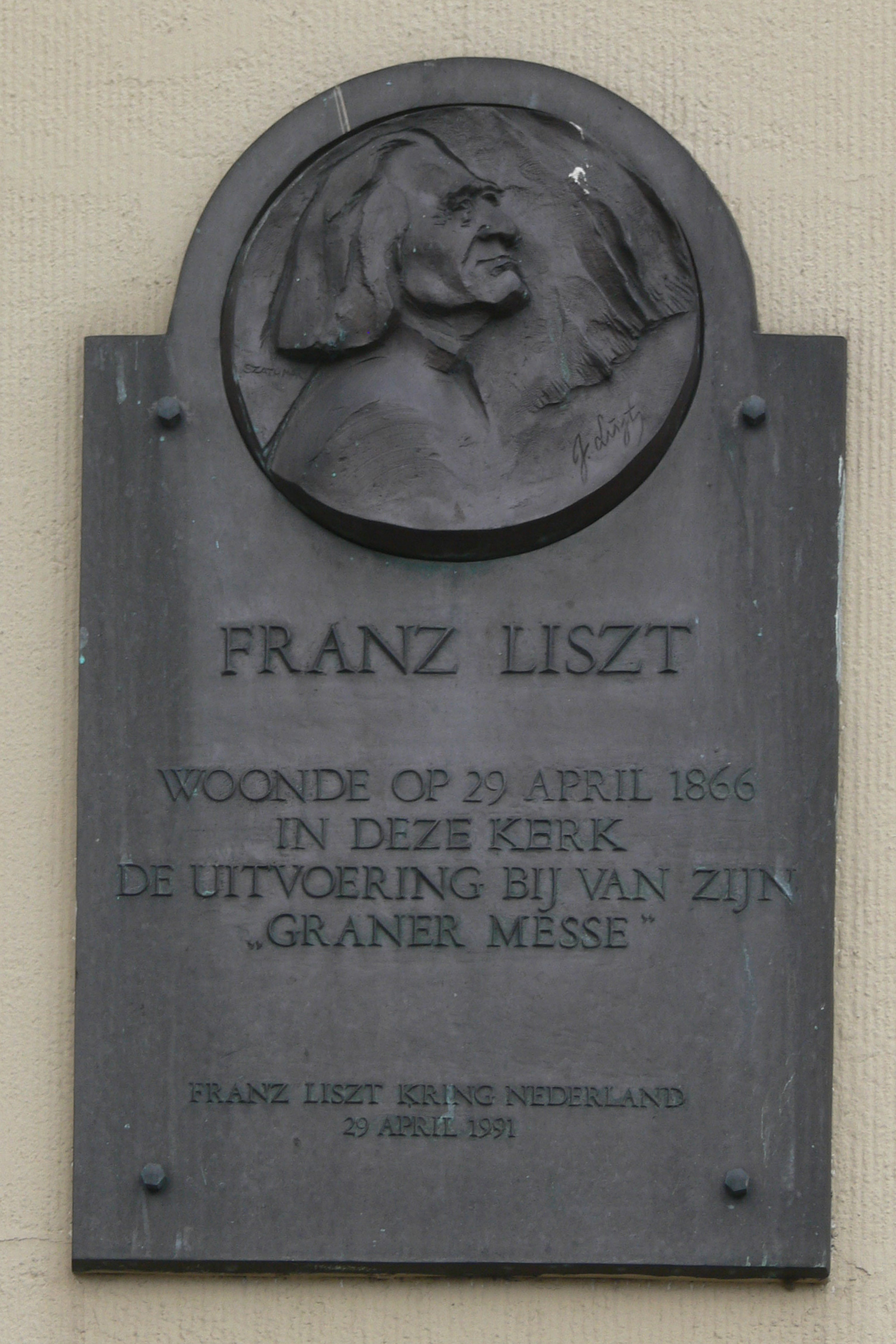 Amsterdam - Mozes en Aäronkerk - plaque for the coming of Franz Liszt